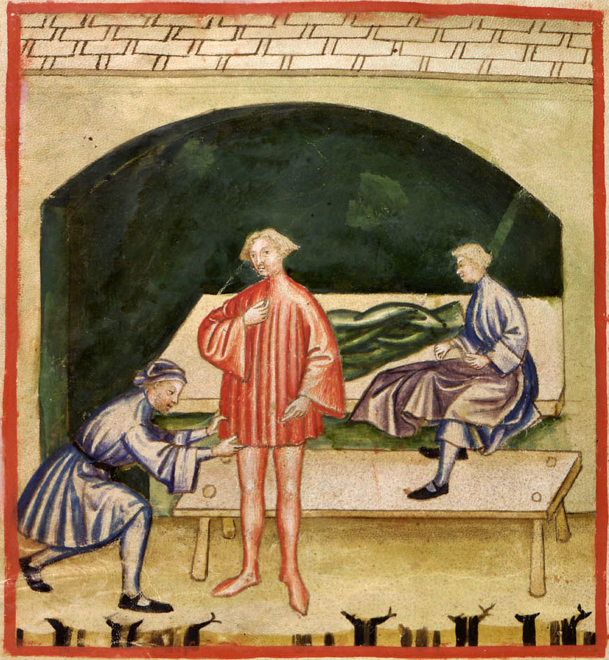 Aspects of daily life: Wool clothing